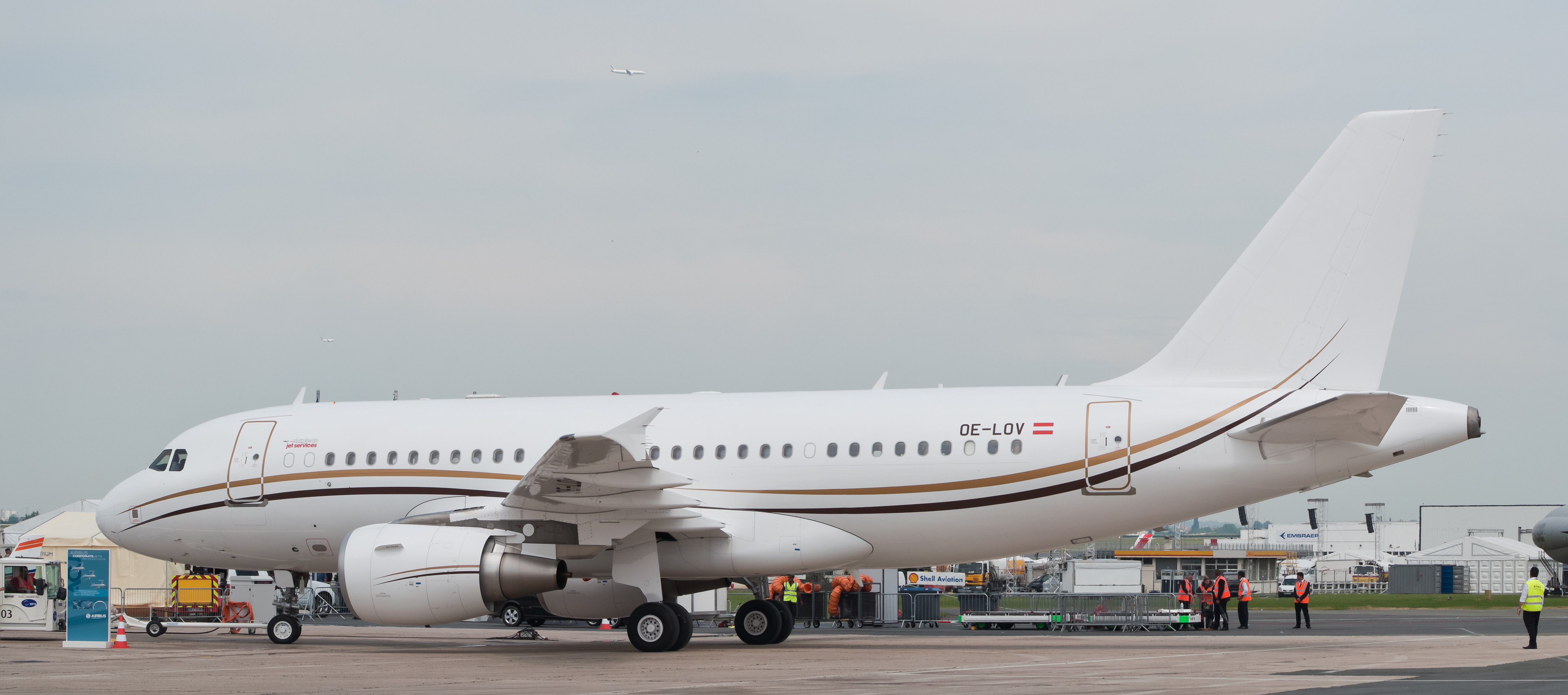 Tyrolean Jet Service Airbus A319-115(CJ) (reg. OE-LOV, c/n 3513) at Paris Air Show 2013.